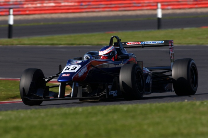 Chris Vlok British F3 2013 Silverstone